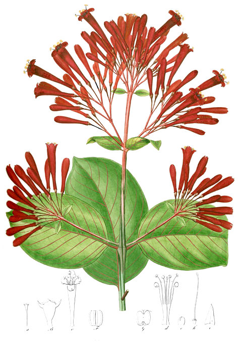 Illustration of Ferdinandusa speciosa 108 (Ferdinandusa speciosa Pohl, ) from Plantarum Brasiliae icones et descriptiones hactenus ineditae : iussu et auspiciis Francisci Primi, imperatoris et regis augustissimi / auctore Ioanne Emanuele Pohl. Volume 2 of 2